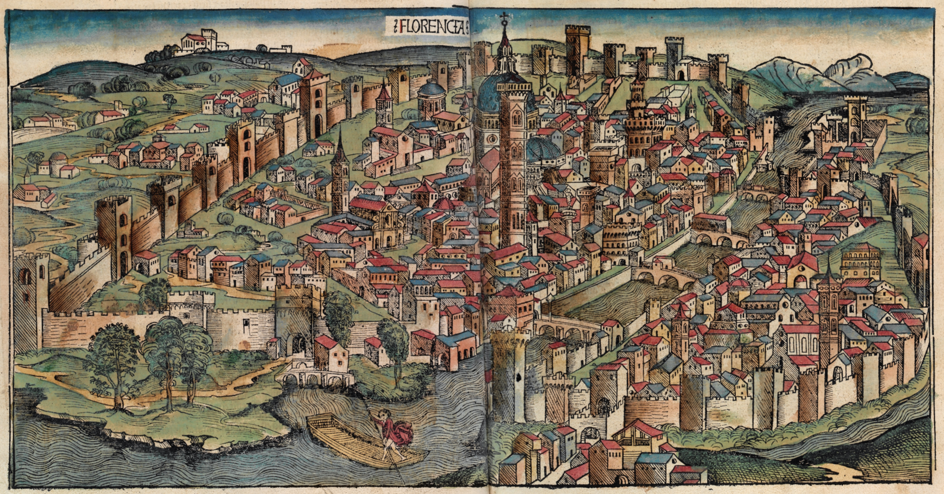 This is a part of a scan of an historical document: Title: Schedelsche Weltchronik or Nuremberg Chronicle